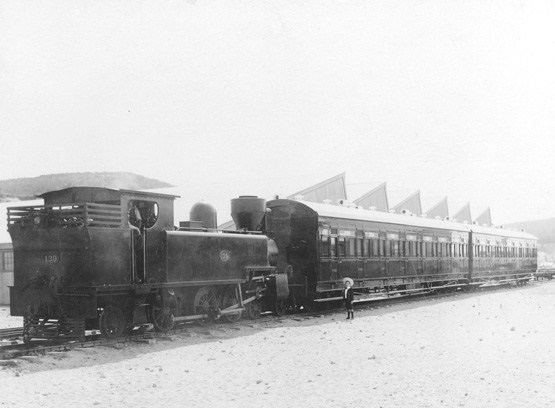 A three quarter view of WAGR Q class (1895), no. Q139, with a train of new Aw class suburban carriages, outside the Westralia Ironworks workshops at Rocky Bay (North Fremantle), Western Australia.